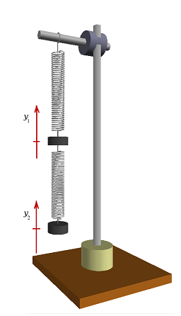 Molas acopladas.